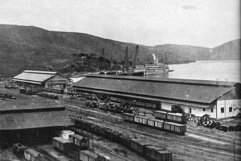 Port of Matadi in the Belgian Congo